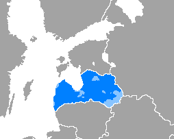 Latvian language